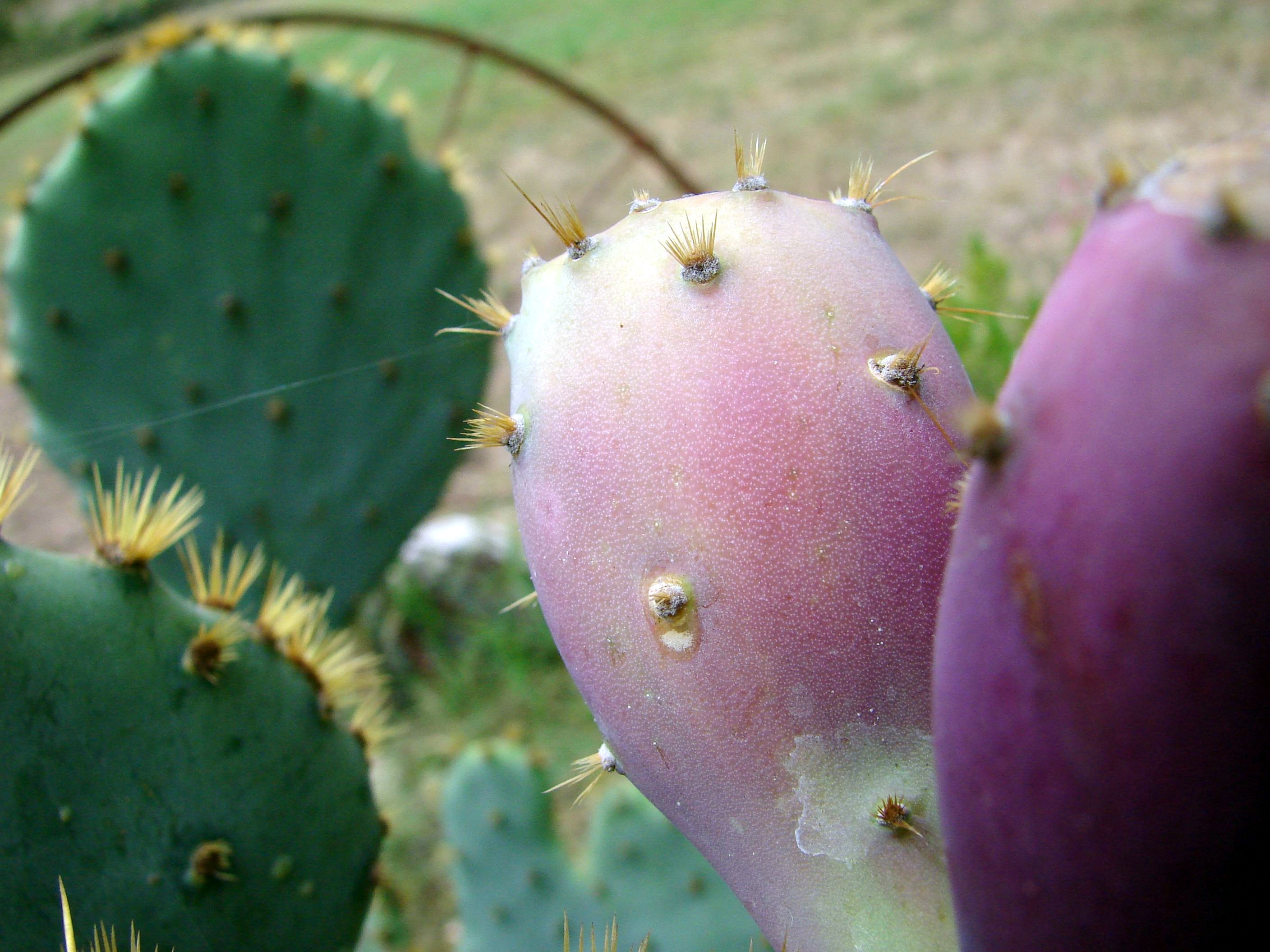 Photo taken by me, July 2006.